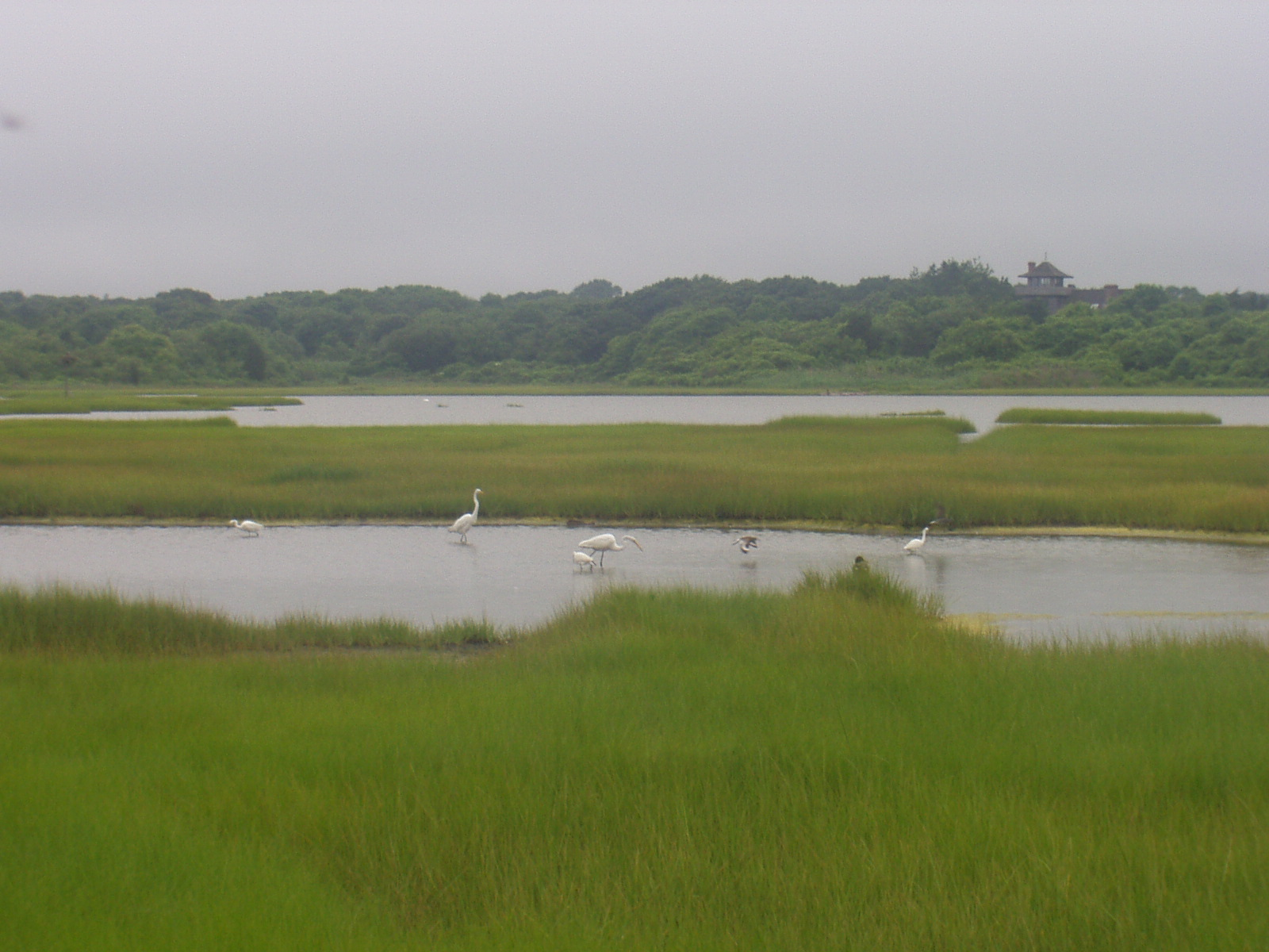 Allen' Pond salt marsh Mass. U.S.A.